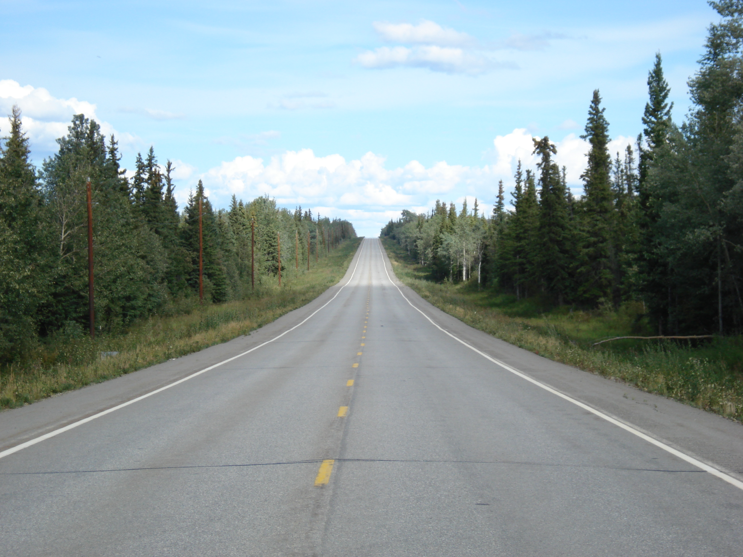 Mile 1,337 on the Alaska Highway (between Tok and Delta Junction) near Dot Lake. This is the roughly eastbound view (towards Tok). Power lines, trees, and terrain are visible.